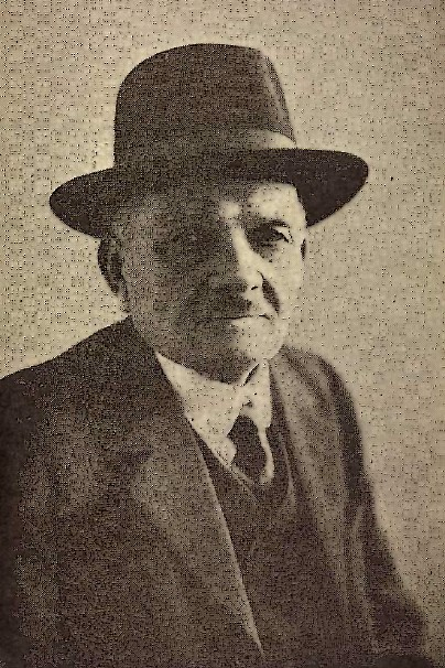 Santu Casanova's portray - from L'Annu Corsu 1927